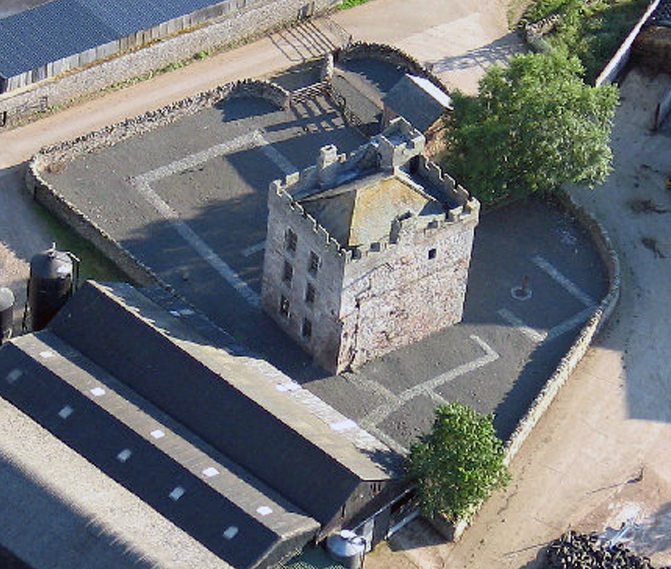 Clifton Hall overhead shot; trimmed from original